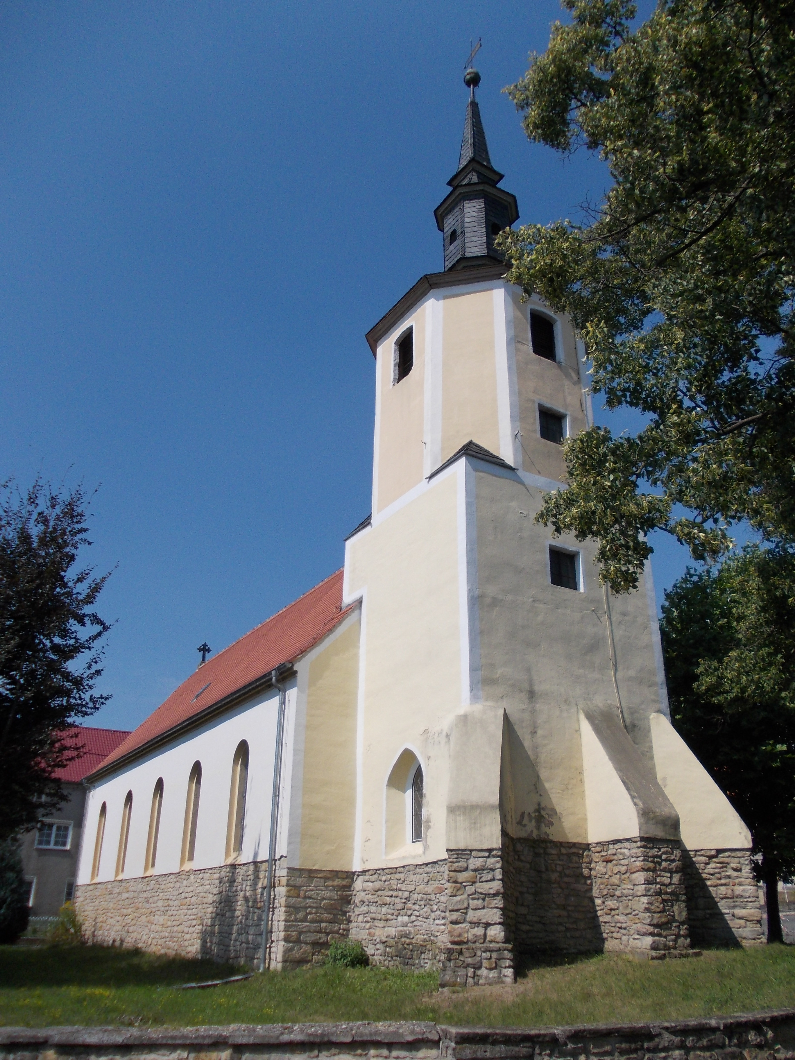 Bröckau church (Schnaudertal, district: Burgenlandkreis, Saxony-anhalt)